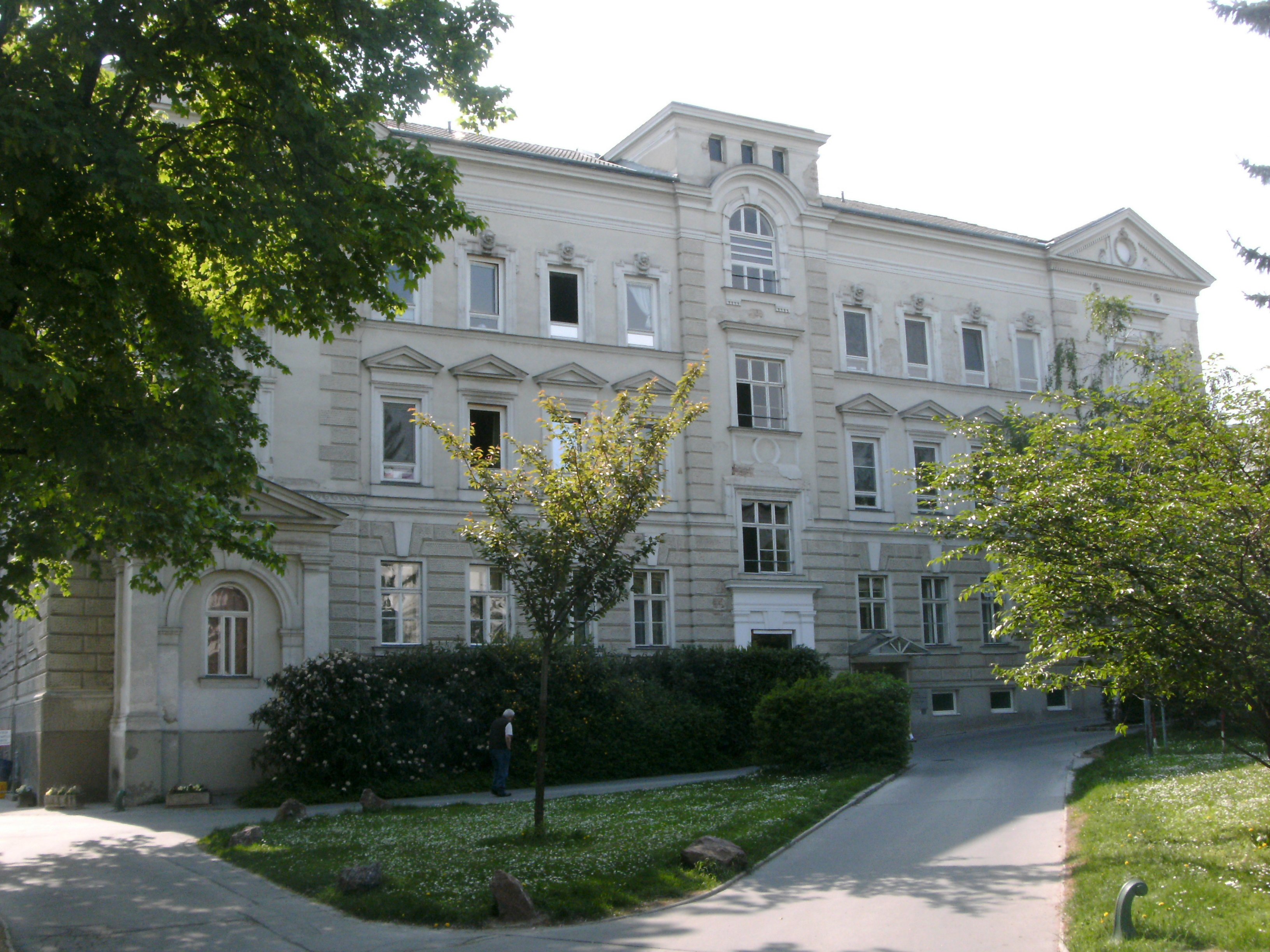 Pavillon 4 of Kaiserin-Elisabeth-Spital (Empress Elisabeth Hospital) in Vienna's 15th district